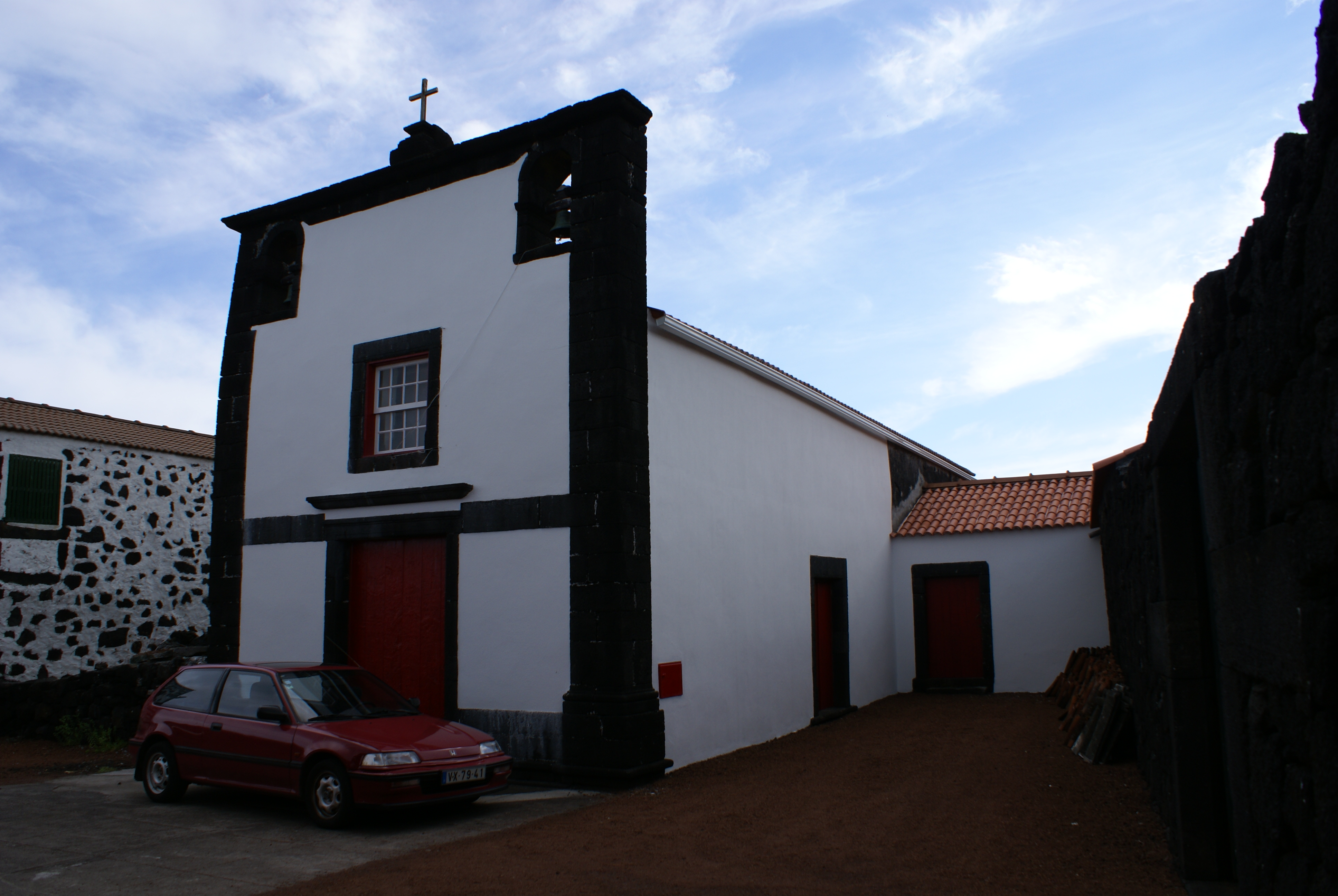 Ermida de Nossa Senhora da Pureza, Lagido, Santa Luzia, concelho de São Roque do Pico, ilha do Pico, Açores, Portugal